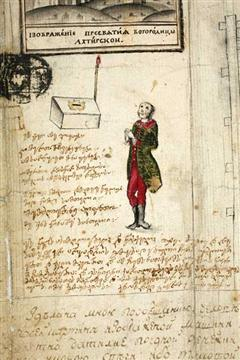 A plan of a watermill from the Davitiani, a collection of poems by David Guramishvili. The portrait of the poet is seen in the center